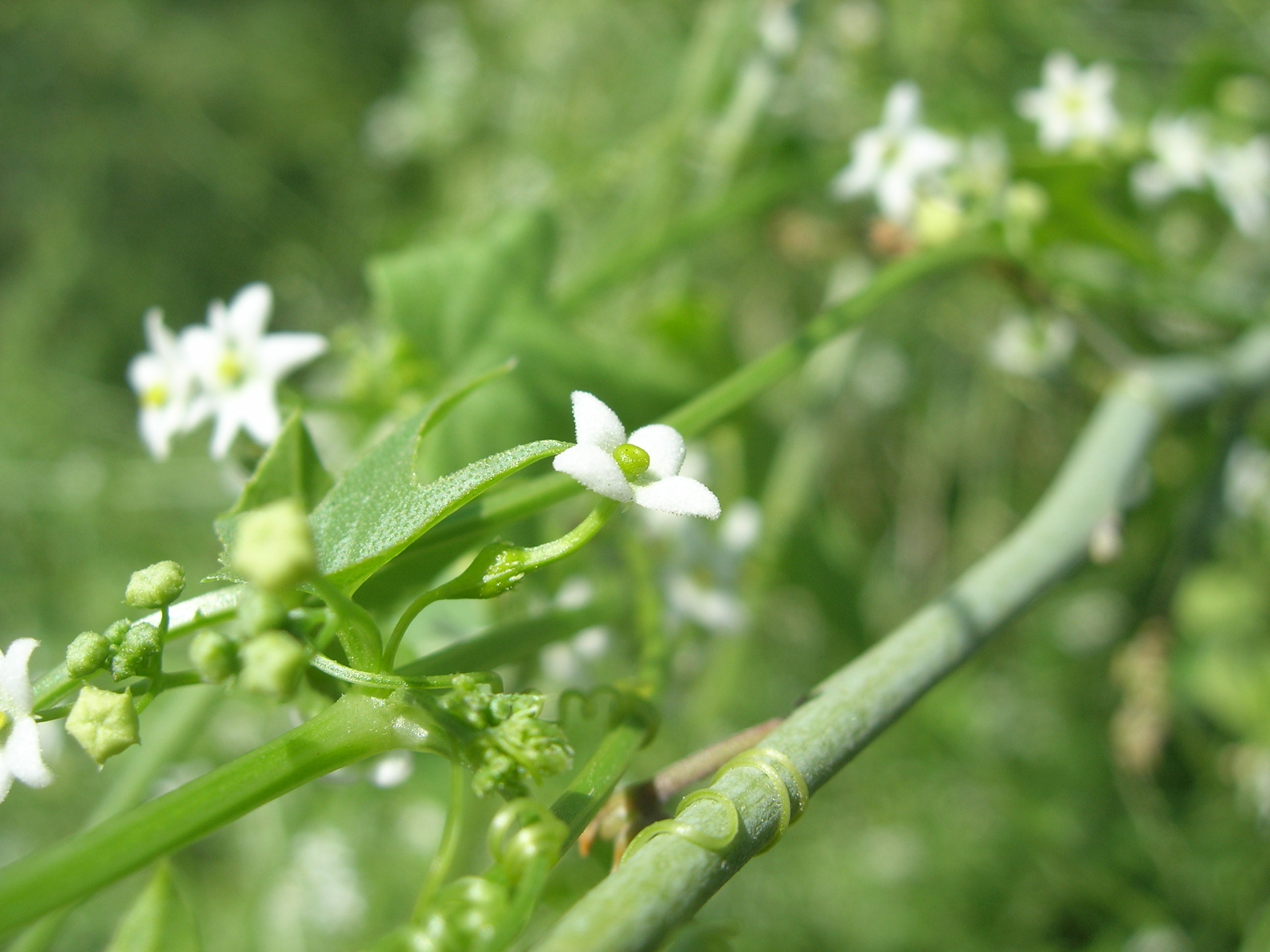 Brandegea bigelovii in Coachella Valley, CA, USA